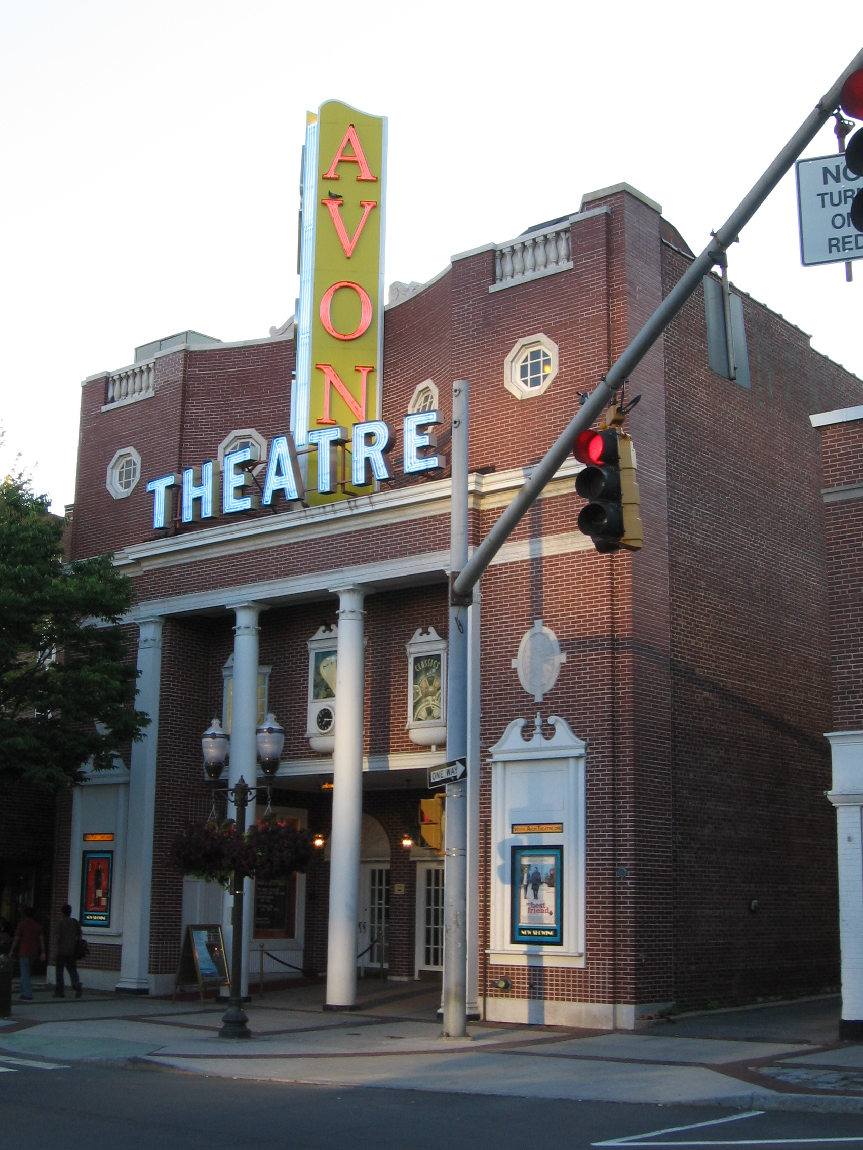 Avon Theatre on Bedford Street in Downtown Stamford, Connecticut